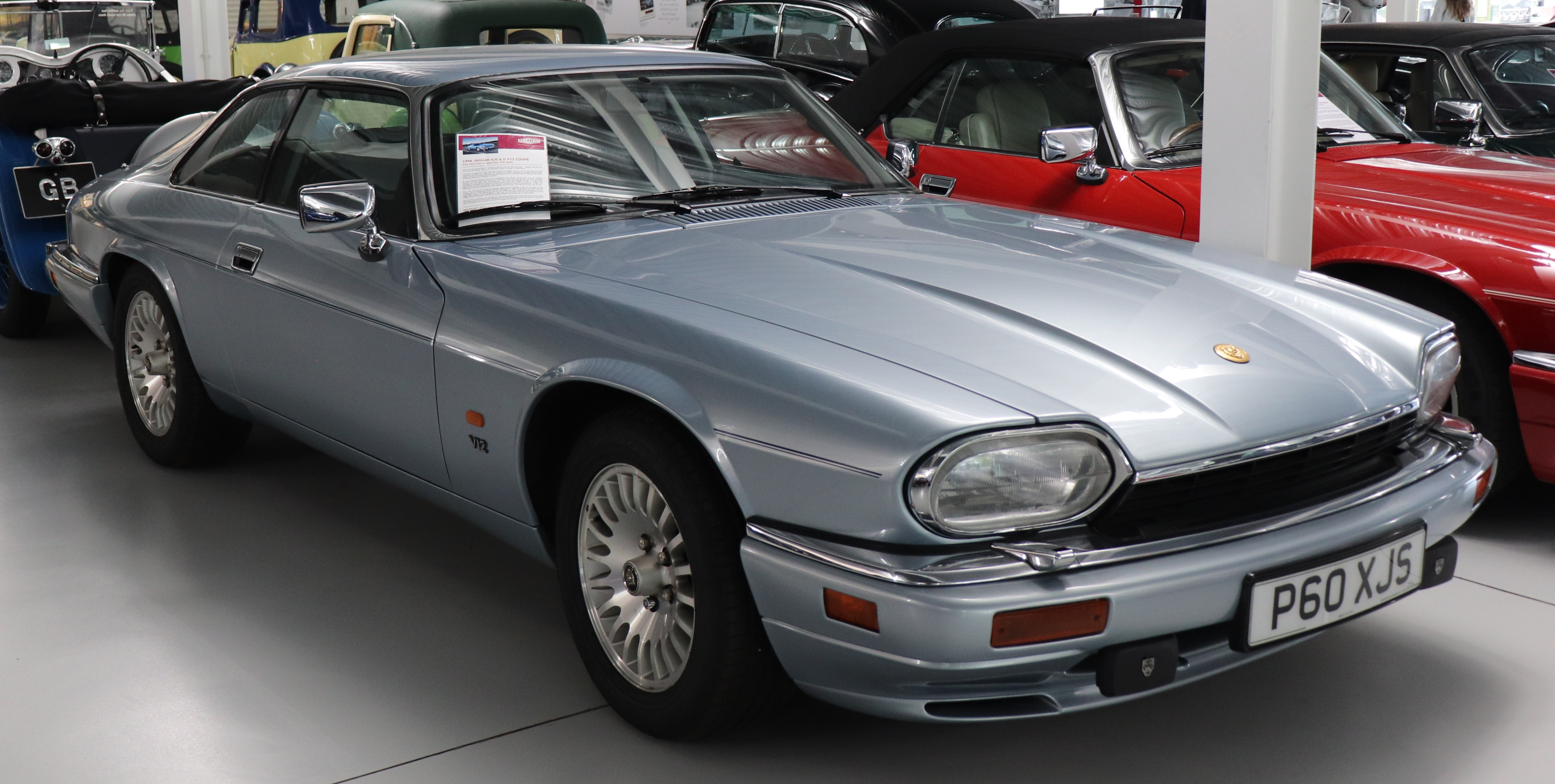 1996 Jaguar XJS Coupe 6.0 Front Taken at the British Motor Museum, Gaydon